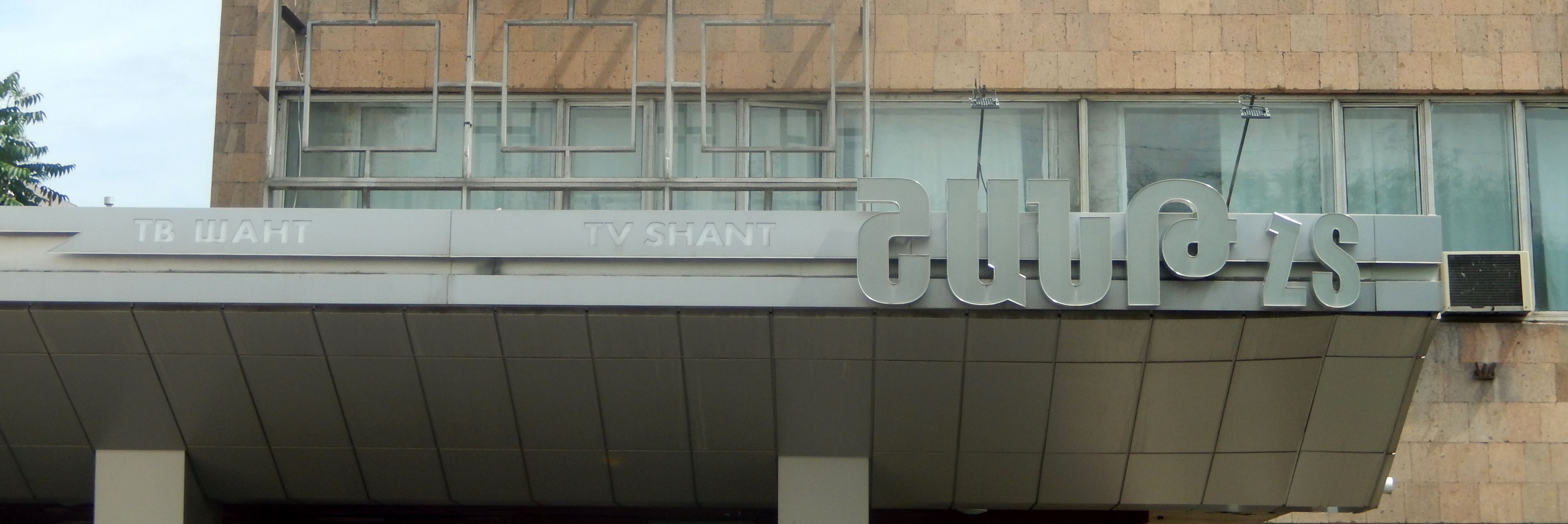 TV Shant logo on Kievyan street